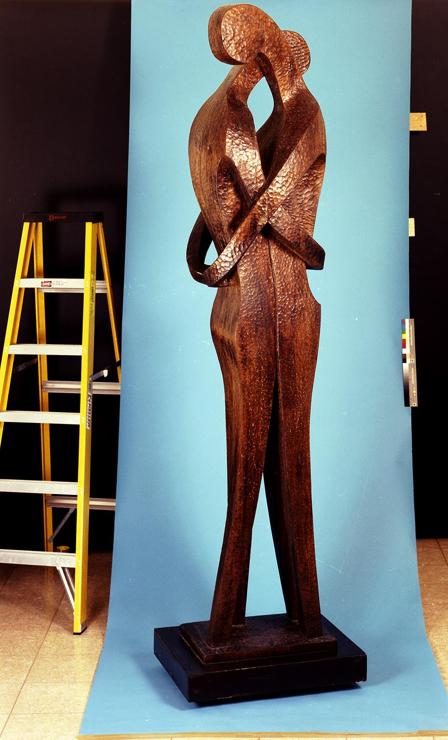 A giant carving in Texas Oak from a private forest in Livingston, TX